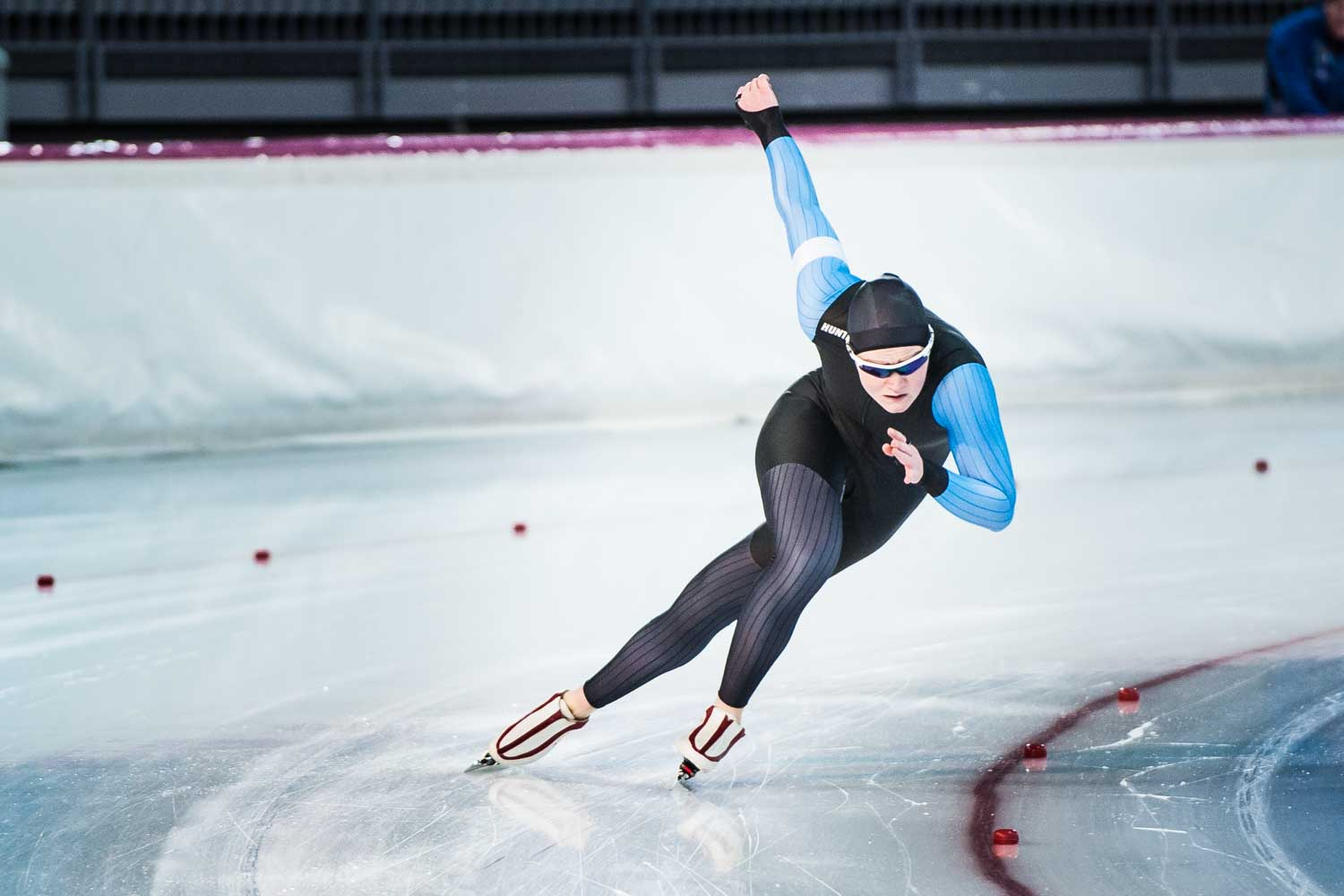 Anne Guldbransen, competing in Norgescup in the Vikingskipet, Hamar.